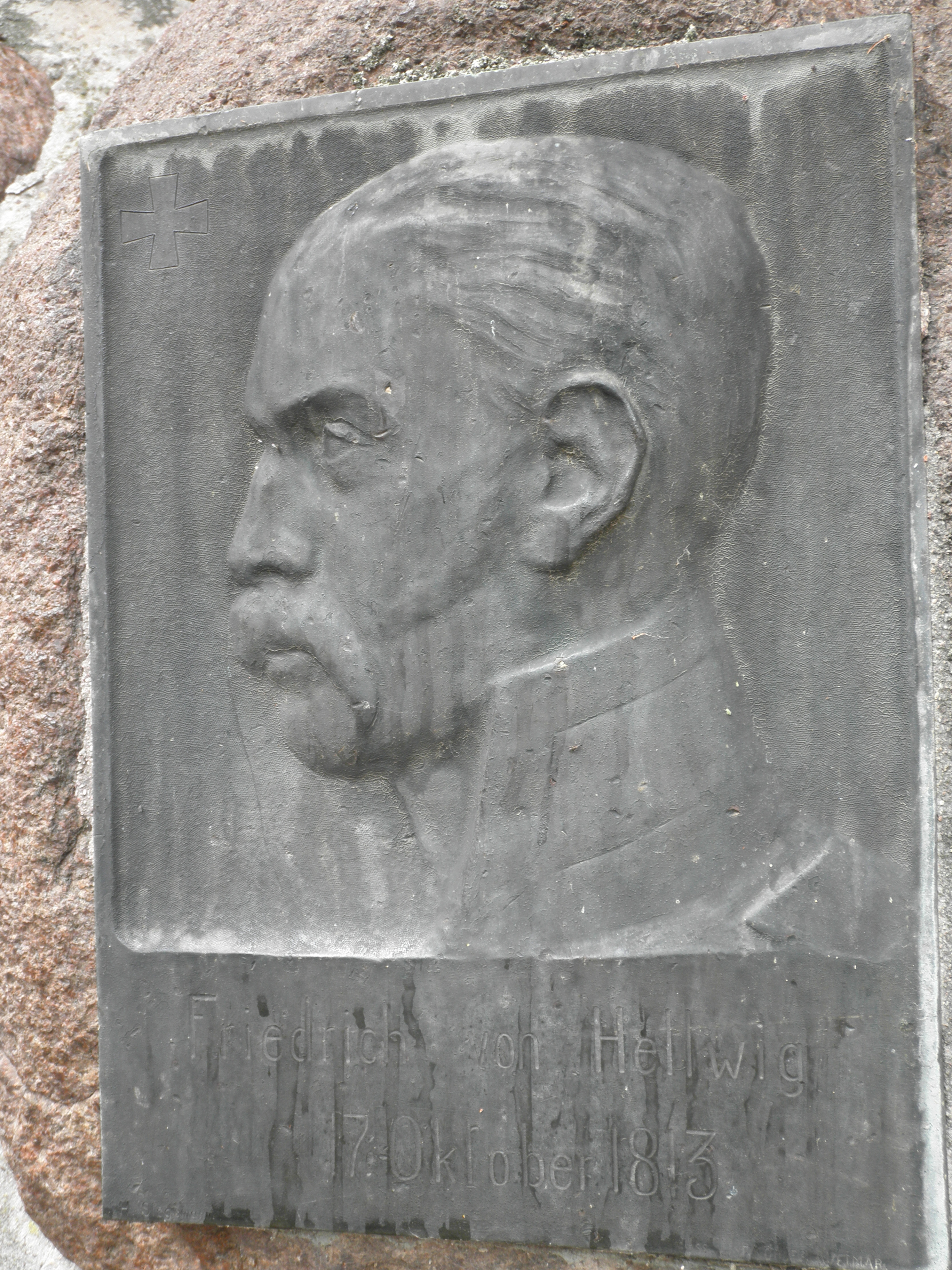 Monument of Friedrich von Hellwig in Schloßvippach (Thuringia)